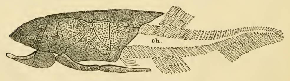 Coccosteus (after Pander), Old Red Sandstone. ch. position of notochord.